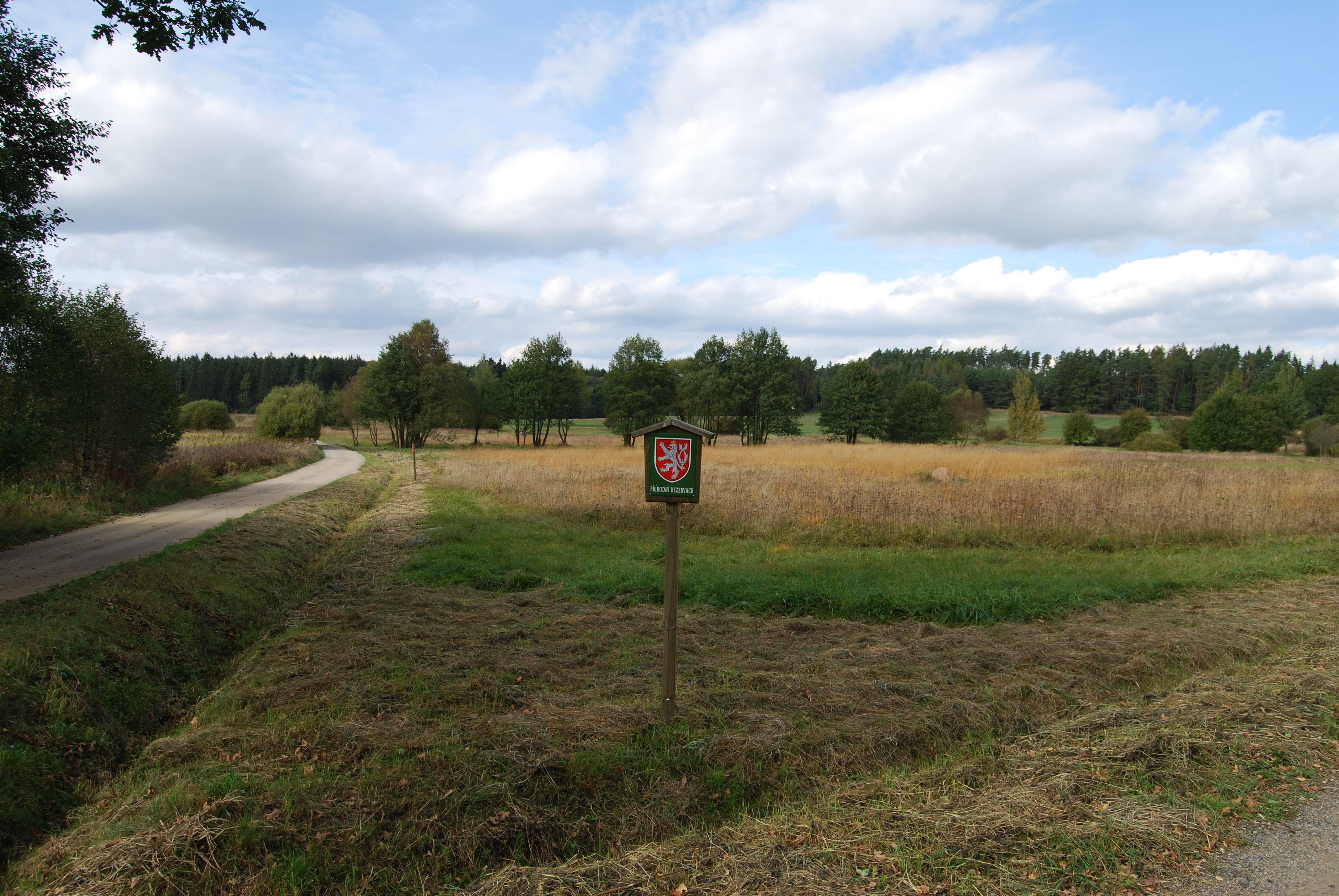 Natural monument/Nature reserve Kocelovické pastviny, Strakonice District, Czech Republic.